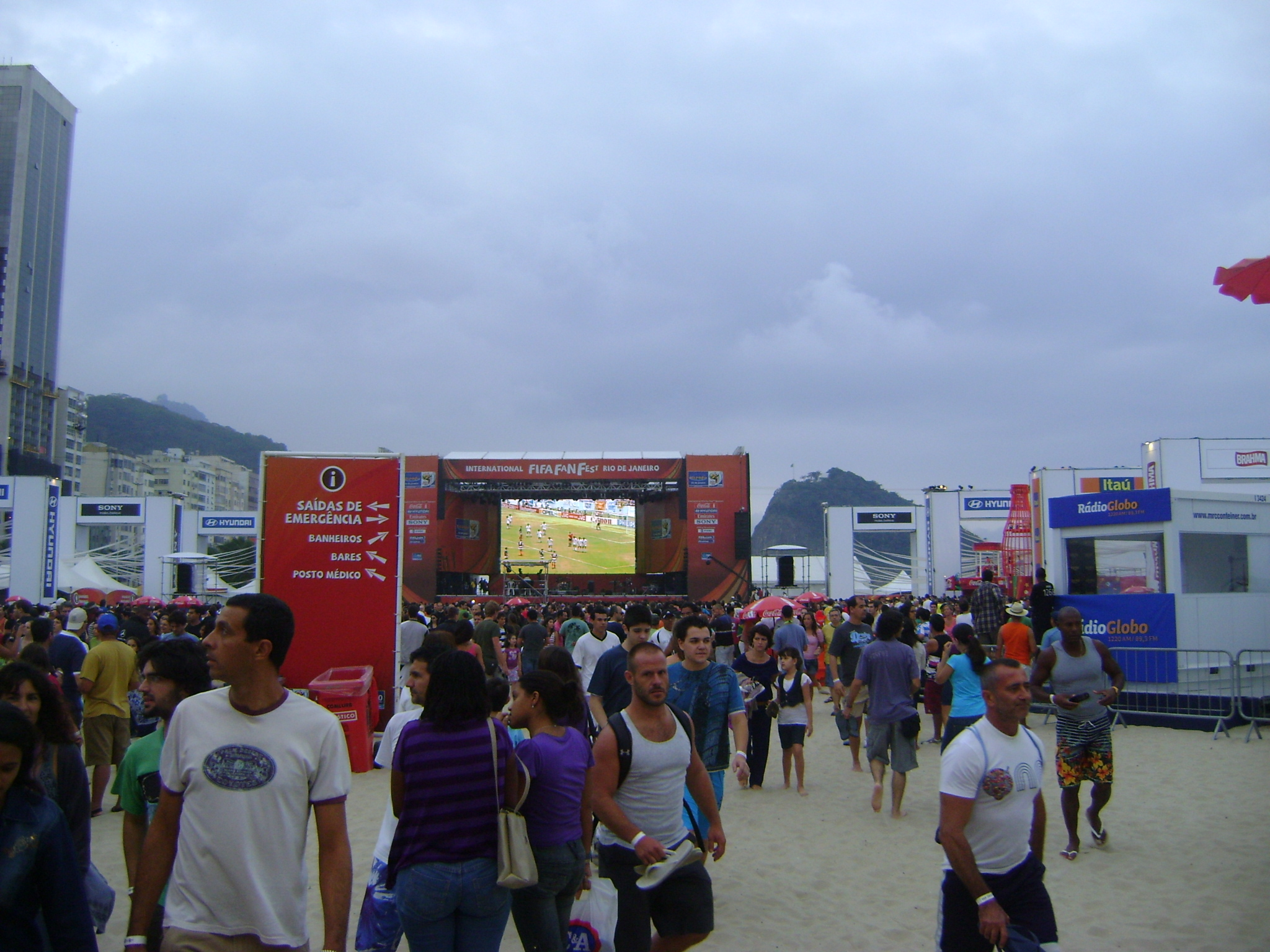 Fans during the semi-final between Germany and Uruguay at the FIFA Fan Fest Arena at Copacabana Beach, Rio de Janeiro.